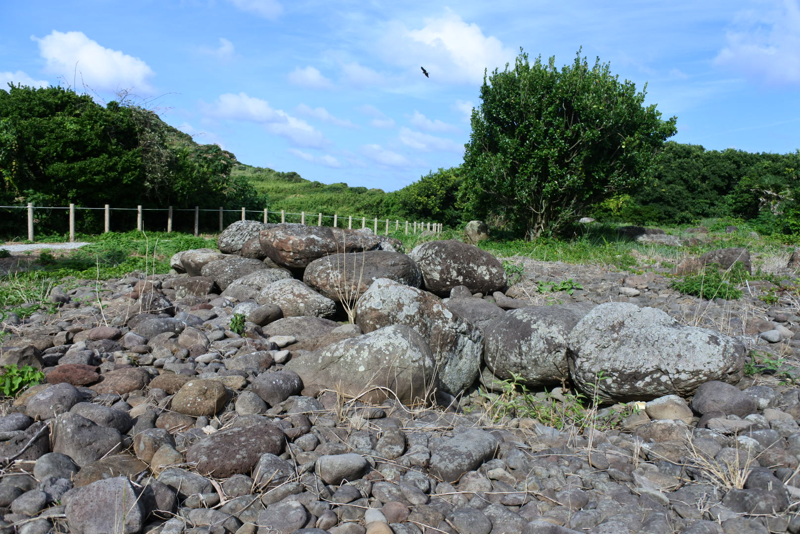 Jīkombo Kofun Group (Ancient tombs) in Mi-shima Island, Yamaguchi prefecture.